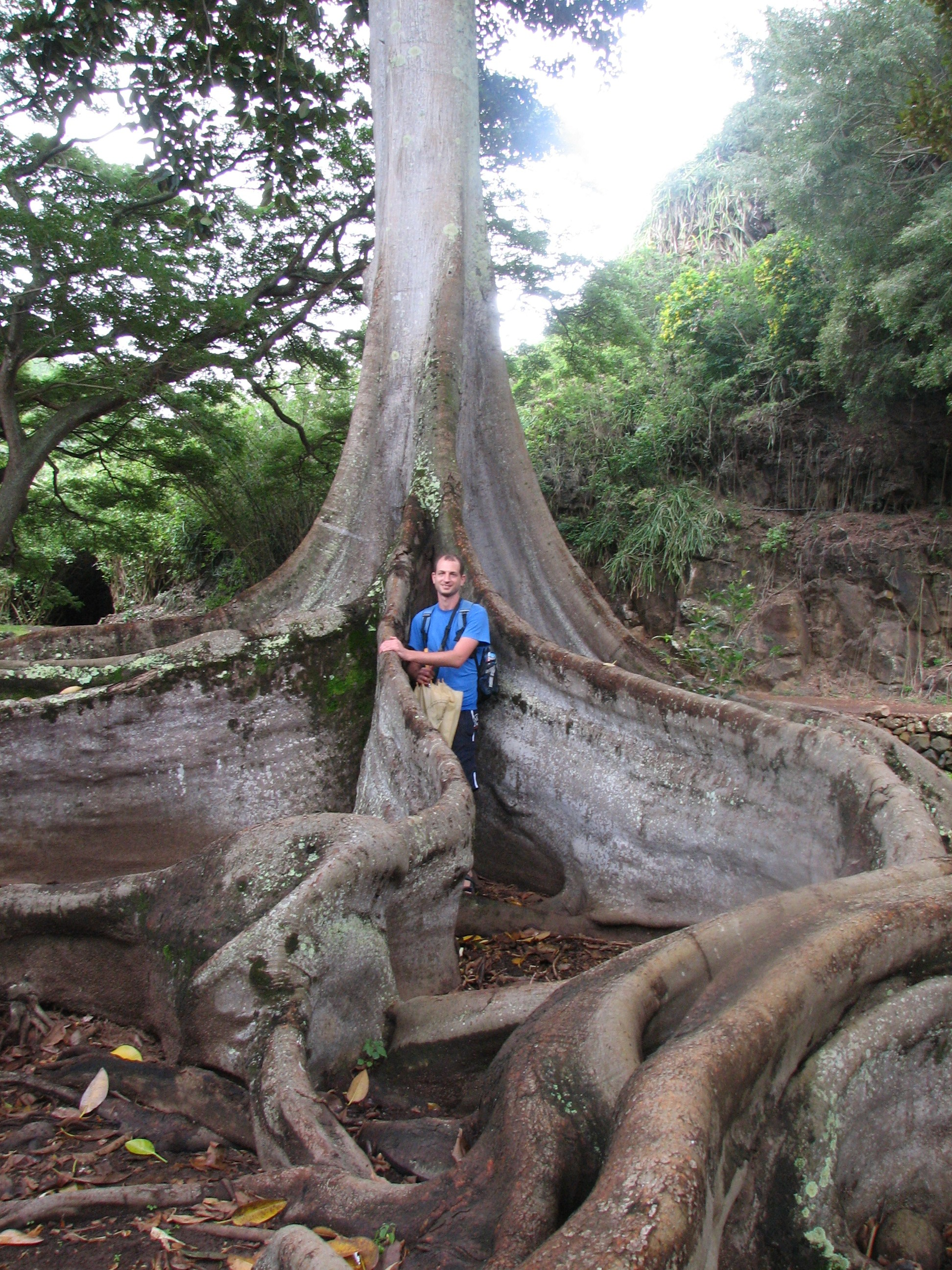 Ficus tree roots in the Kauai Botanical Gardens. Here is where the dinosaur eggs were found in the movie "Jurassic Park".